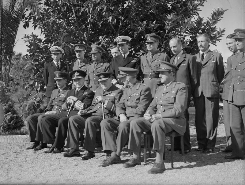 Allies Grand-strategy Conference in N Africa- President Roosevelt Meets Mr Churchill. One of the Most Momentous Conferences of This War Began on January 14 1943, Near Casablanca, When President Roosevelt and Mr Churchill Met To Survey the Entire Field of War, Theatre by Theatre. They Were Accompanied by the Chiefs of Staff of the Two Countries. All Resources Were Marshalled For the Active and Concerted Execution of the Allies Plans Fore the Offensive Campaign of 1943. Mr Roosevelt Later Described the Meeting As the 'unconditional Surrender' Meeting, by Which He Meant That Unconditional Surrender by the Axis Was the Only Assurance For Future World Peace. General De Gaulle and General Giraud Also Met at Casablanca and Discussed Plans For the Unification of the War Effort of the French Empire. Mr Churchill in the uniform of the RAF with his Chiefs of Staff at the Anfa Villa: Front row left to right: Air Chief Marshal Sir Charles Portal, Admiral Sir Dudley Pound, Mr Winston Churchill Field Marshal Sir John Dill General Sir Alan Brooke. Second row, left to right: Unknown person in naval uniform Unknown person in army uniform General The Honourable Sir Harold Alexander Lord Louis Mountbatten General Sir Hastings Ismay Frederick Leathers, Baron Leathers of Purfleet Harold Macmillan Unknown person in civilian clothes Unknown person in army uniform Third row (behind General Alexander) Unknown person in civilian clothes